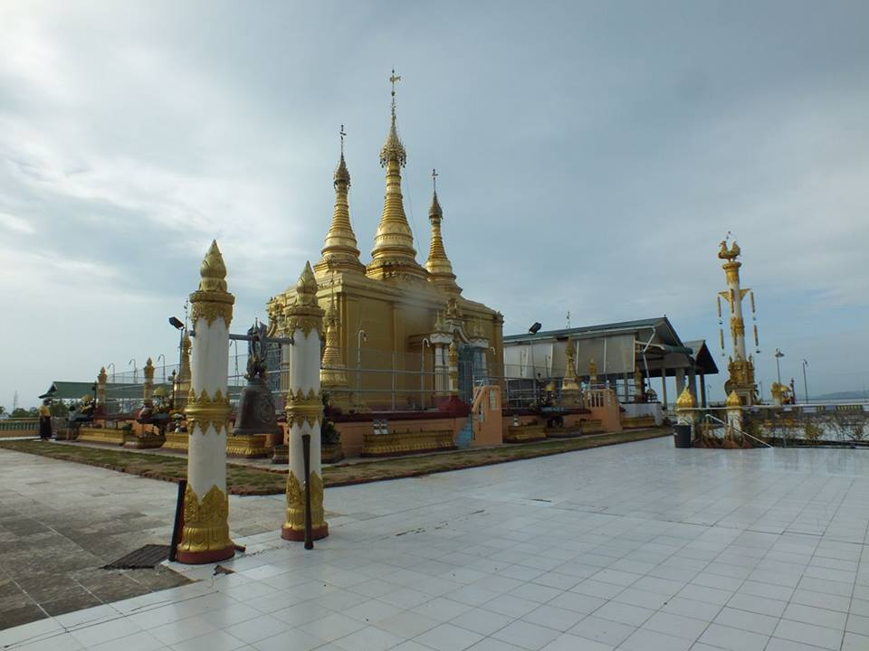 Pawdaw